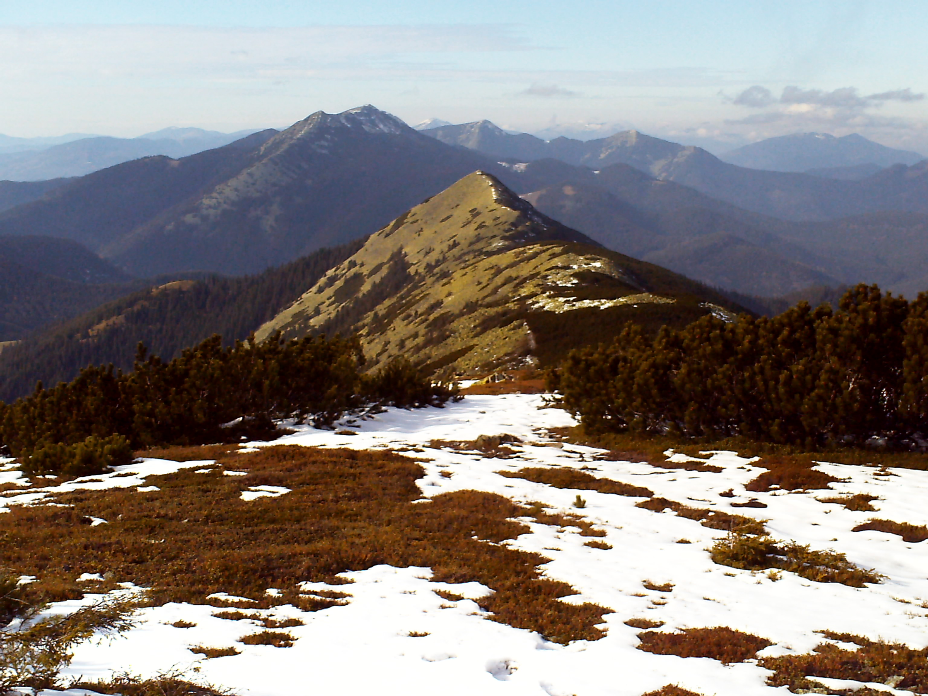 Mountain Malyj Horhan from mountain Synyak